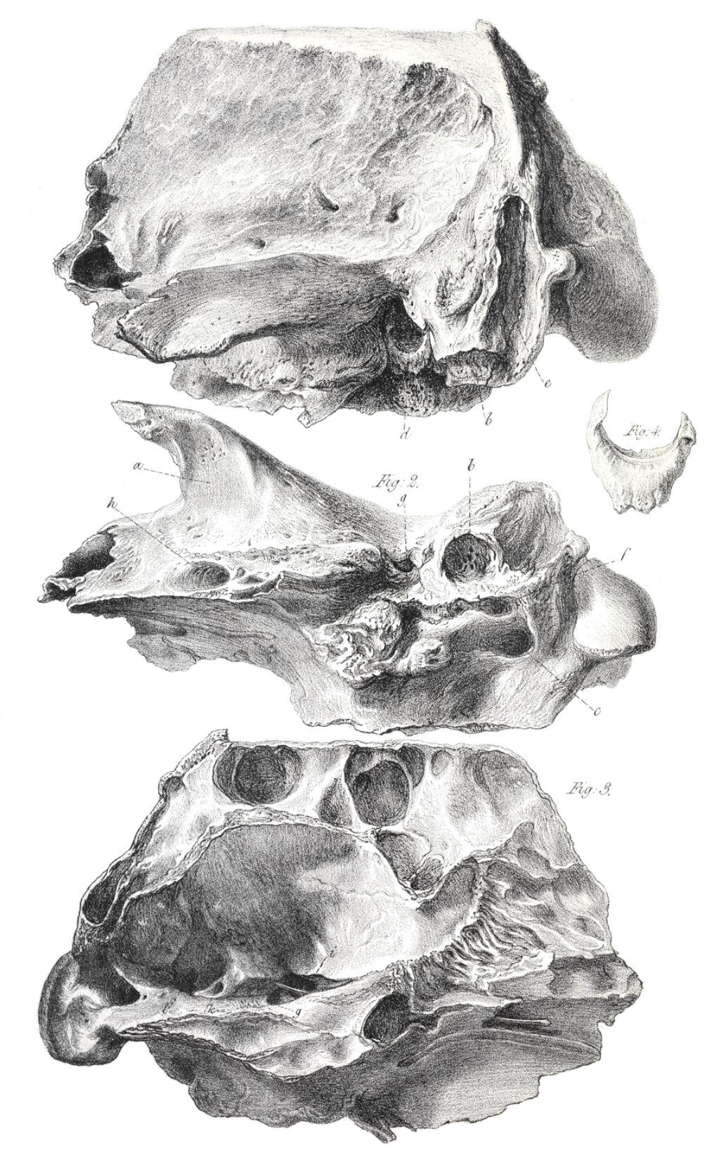 Holotype of Glossotherium, described by Richard Owen 1840